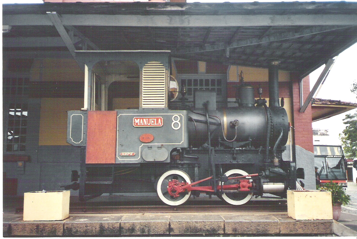 Bavarian narrow-gauge locomotive, no. 2092 'Manuela', built in 1889 by the locomotive works of Krauss and Co., Munich, Germany. see Georg Krauss